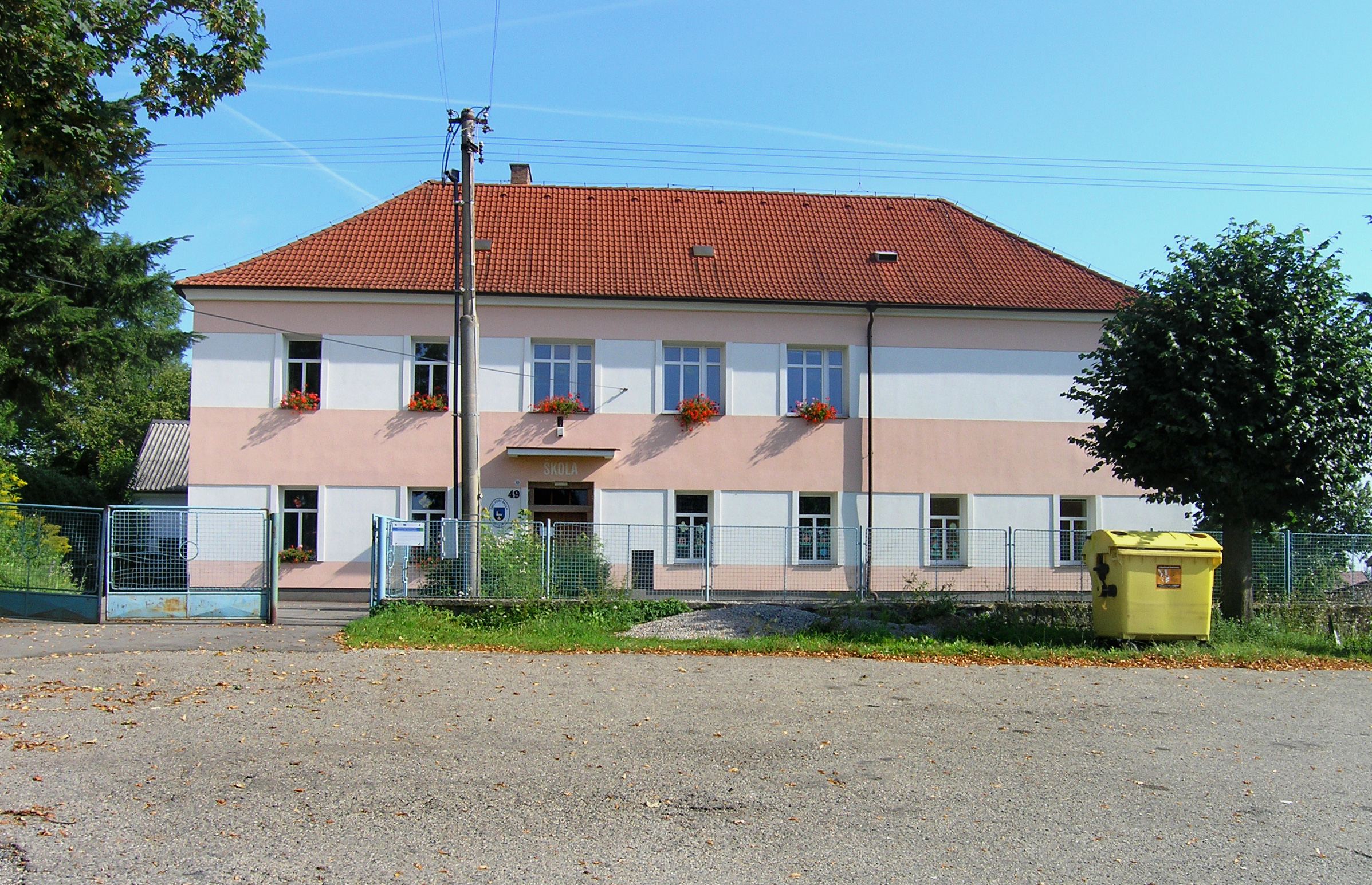 Elementary school in Chotýšany village, Czech Republic